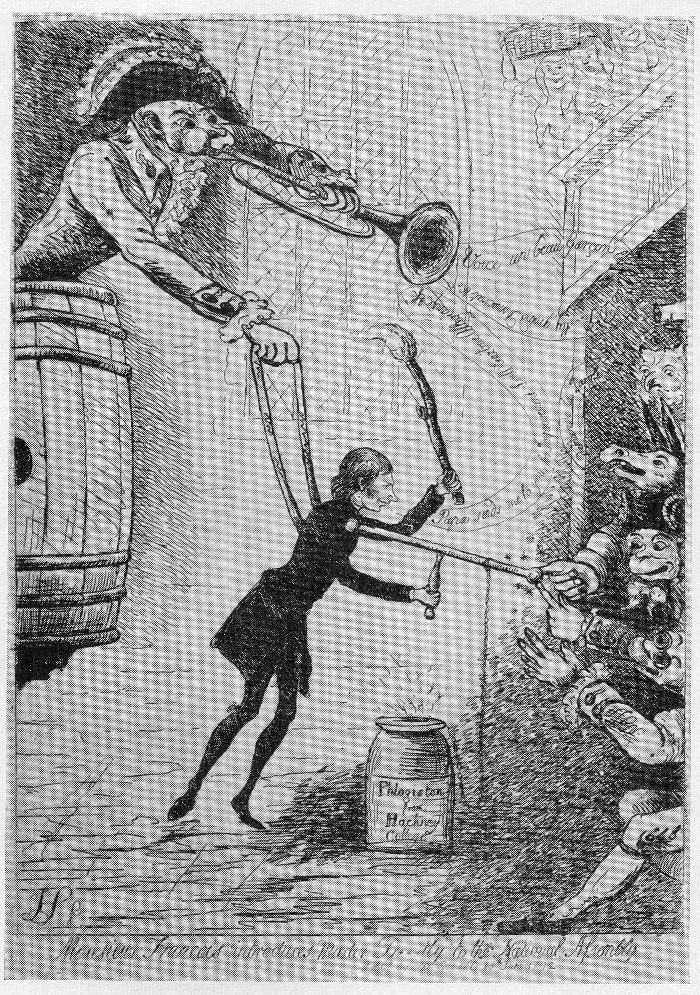 Caricature of William Priestley in a child's reins by Antoine, comte Français of Nantes. Caption: 'Monsieur Francois introduces Master Pr[ies]tly to the National Assembly' (Etching by James Sayers). An open chemical jar exudes 'Phlogiston from Hackney College'. Speech ribbon, M.